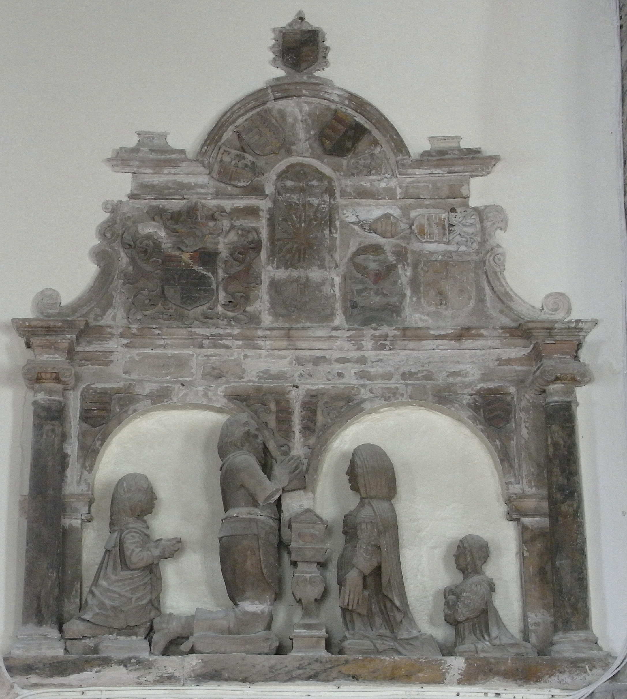 Mural monument to Richard Berrie Esq. (d.1645), lord of the manor of Berrynarbor, Devon; north wall of Berrynarbor Church.